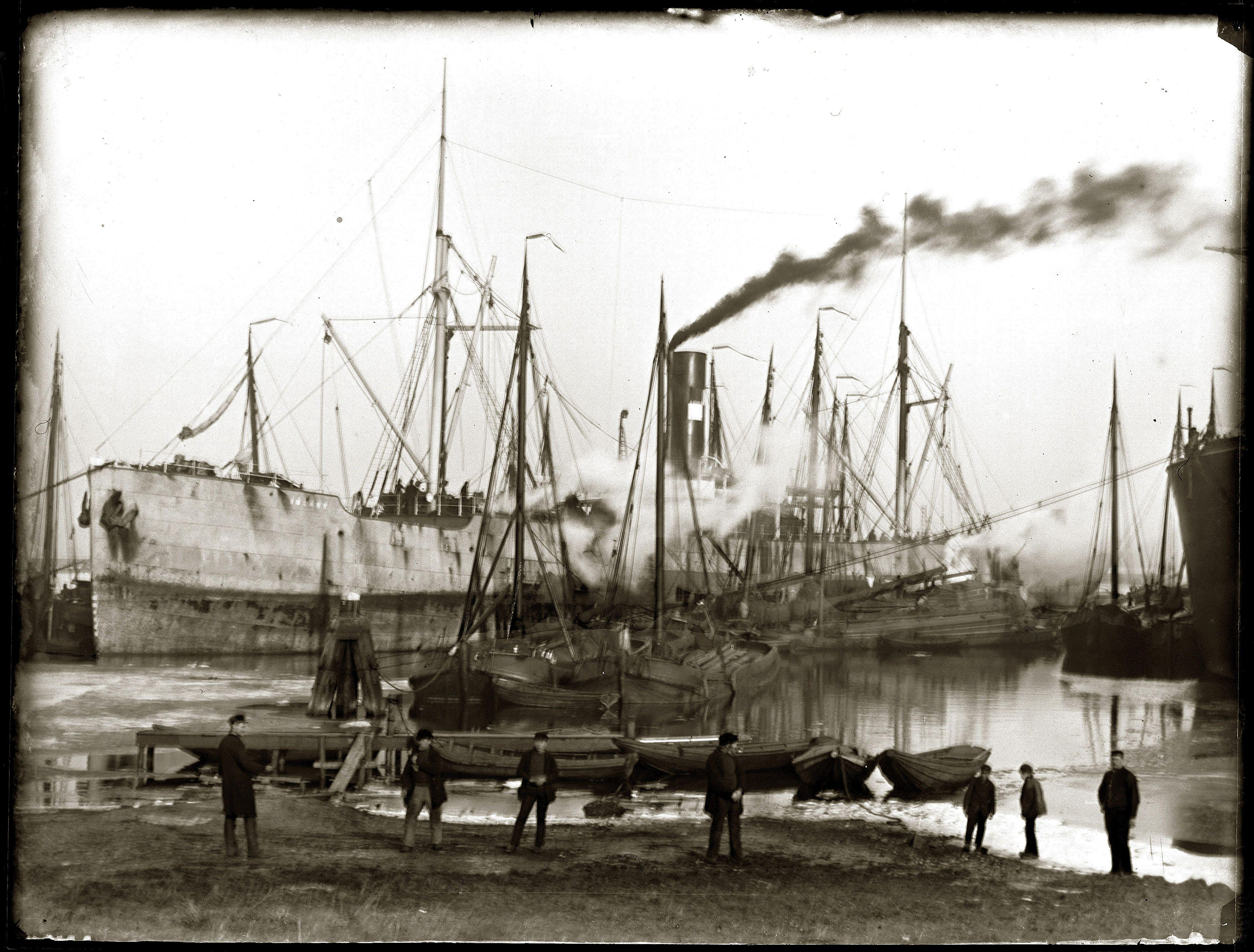 Schepen in ijs (haven nabij Prinseneiland, Amsterdam)